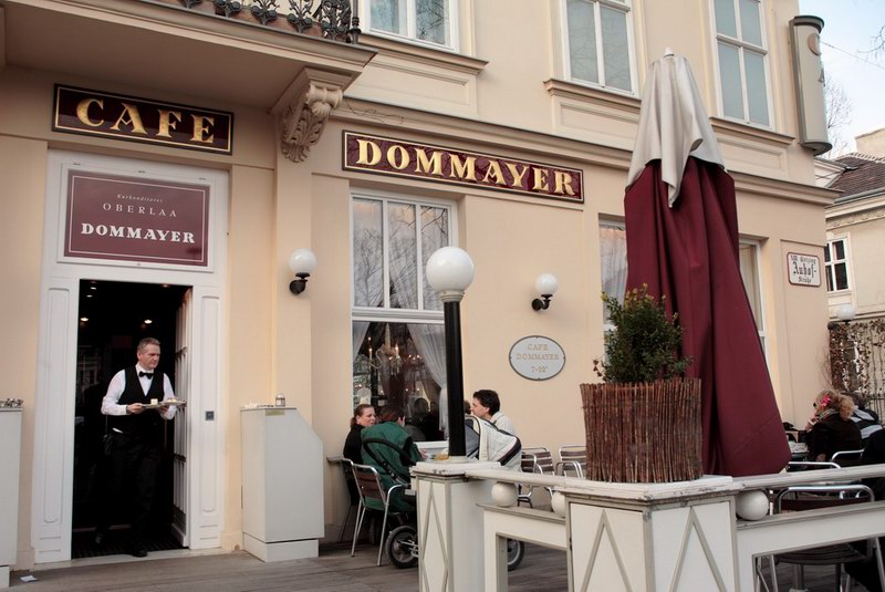 Café Dommayer, Vienna, Austria